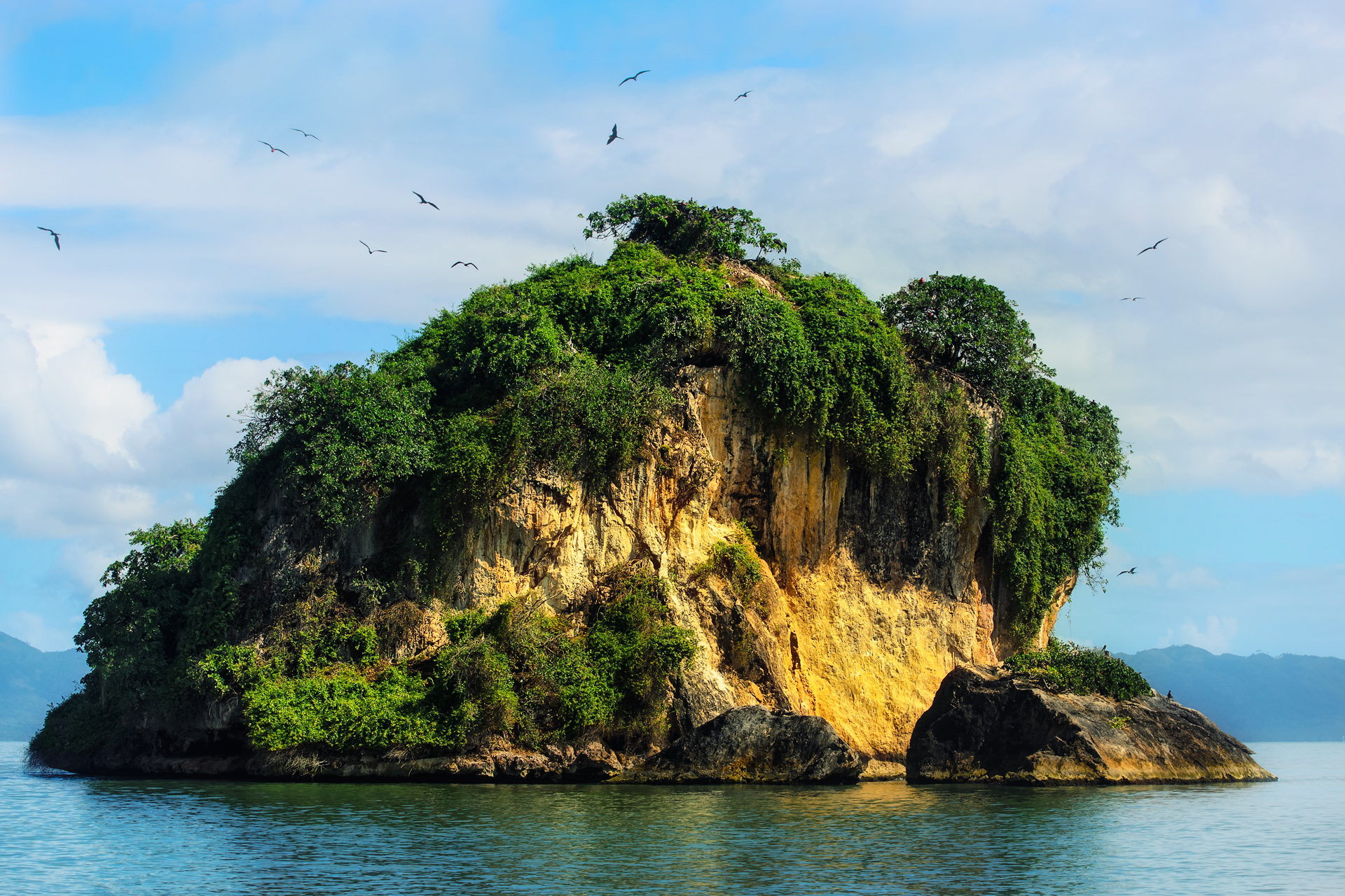 An island with nesting birds in San Lorenzo bay (Los Haitises National Park, Dominican Republic)